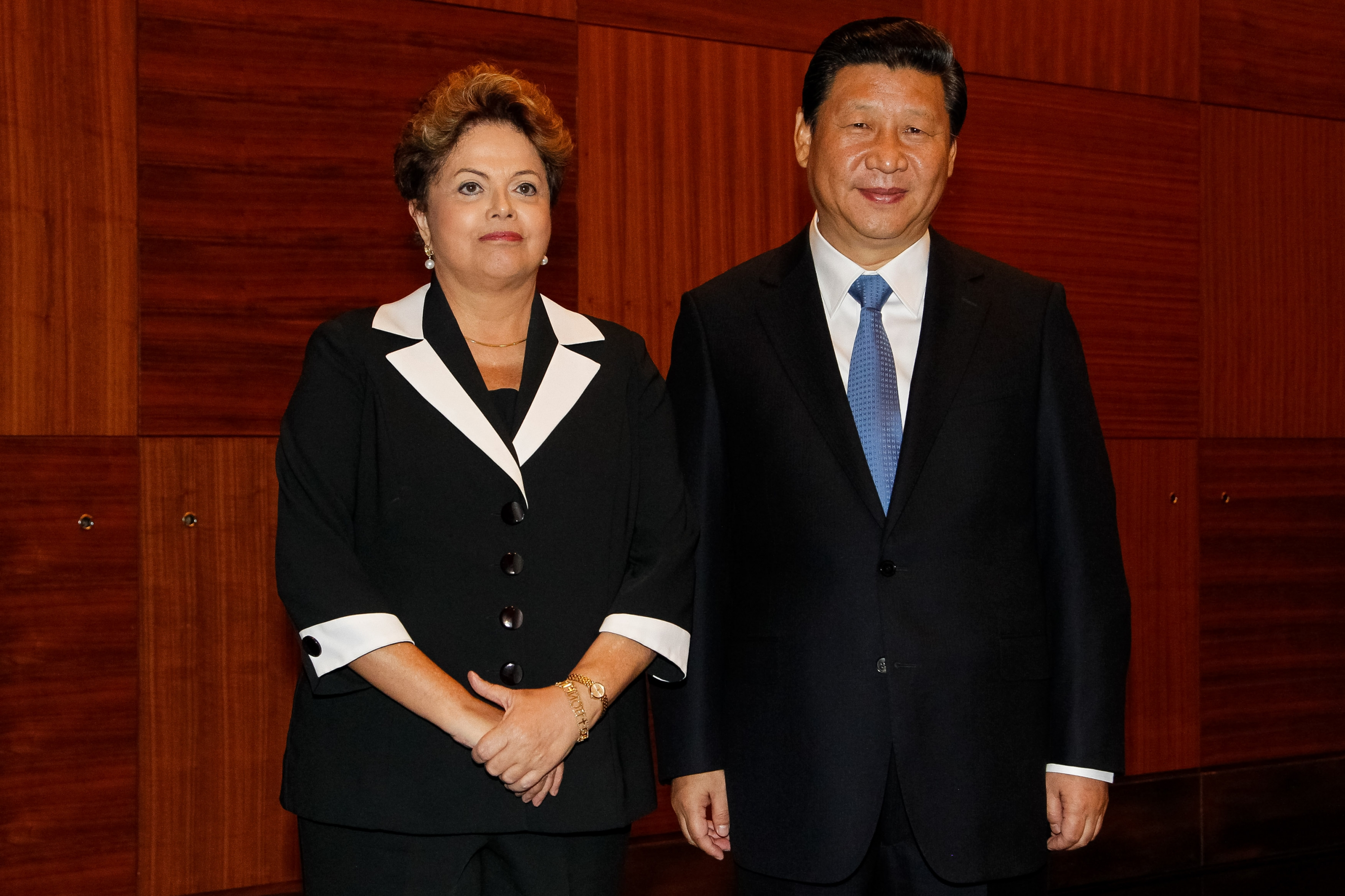 President Dilma Rousseff during a bilateral meeting with the President of the People's Republic of China, Xi Jinping, at G-20 Saint Petersburg summit